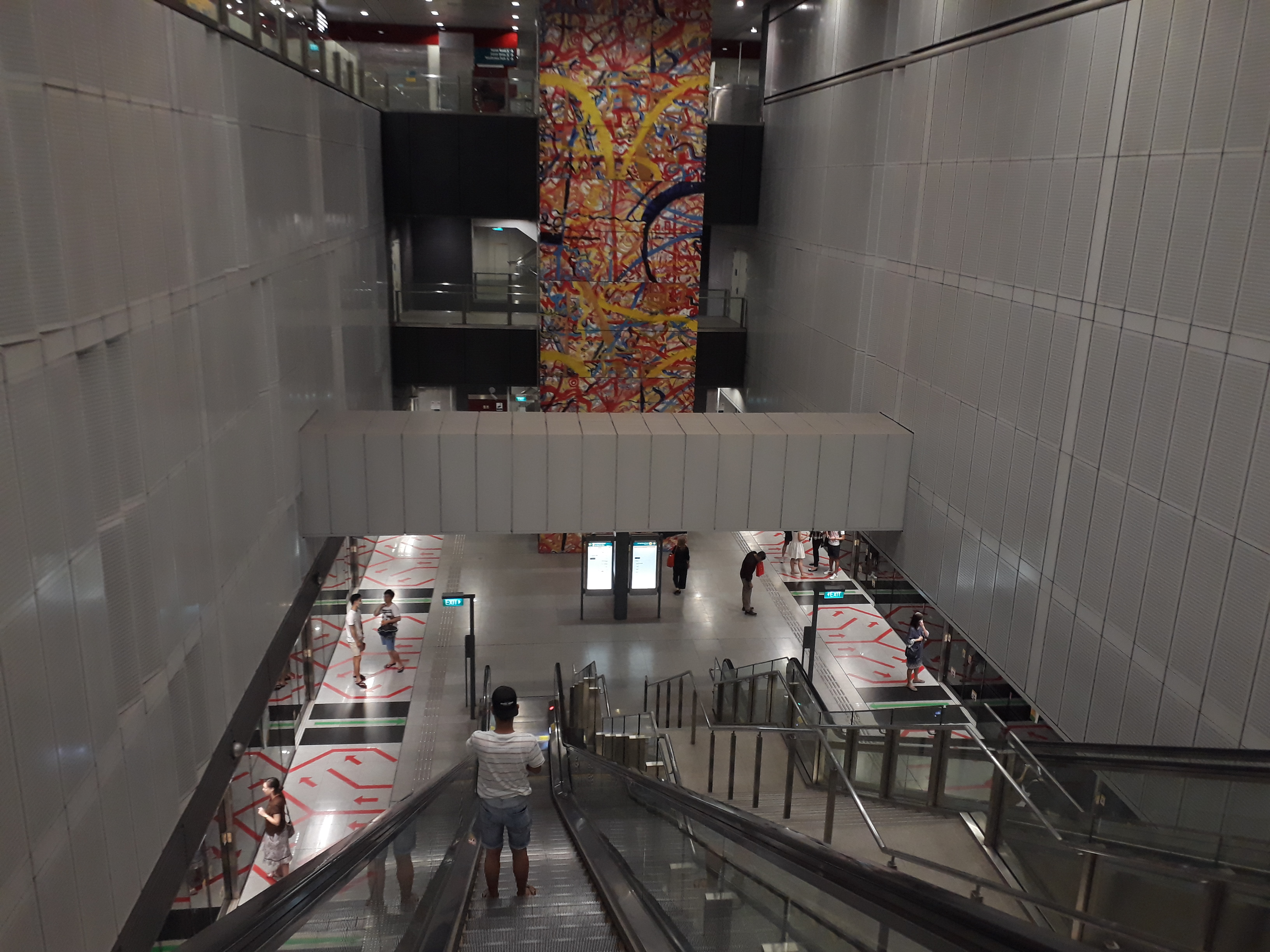 Art in Transit at Farrer Road